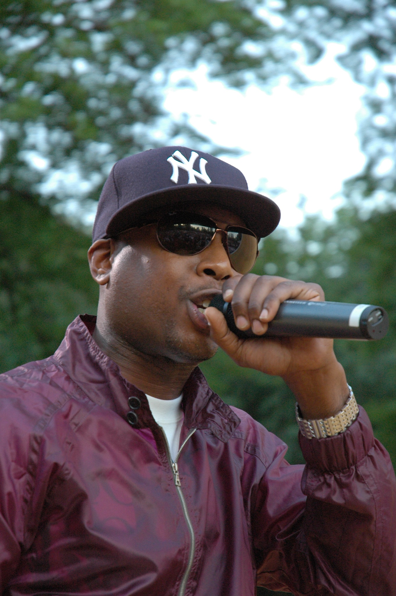 Talib Kweli performing in Brooklyn/Red Bull Experiment